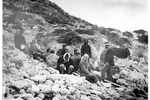 Image of the Survivors of the Clan Ranald wreck accident